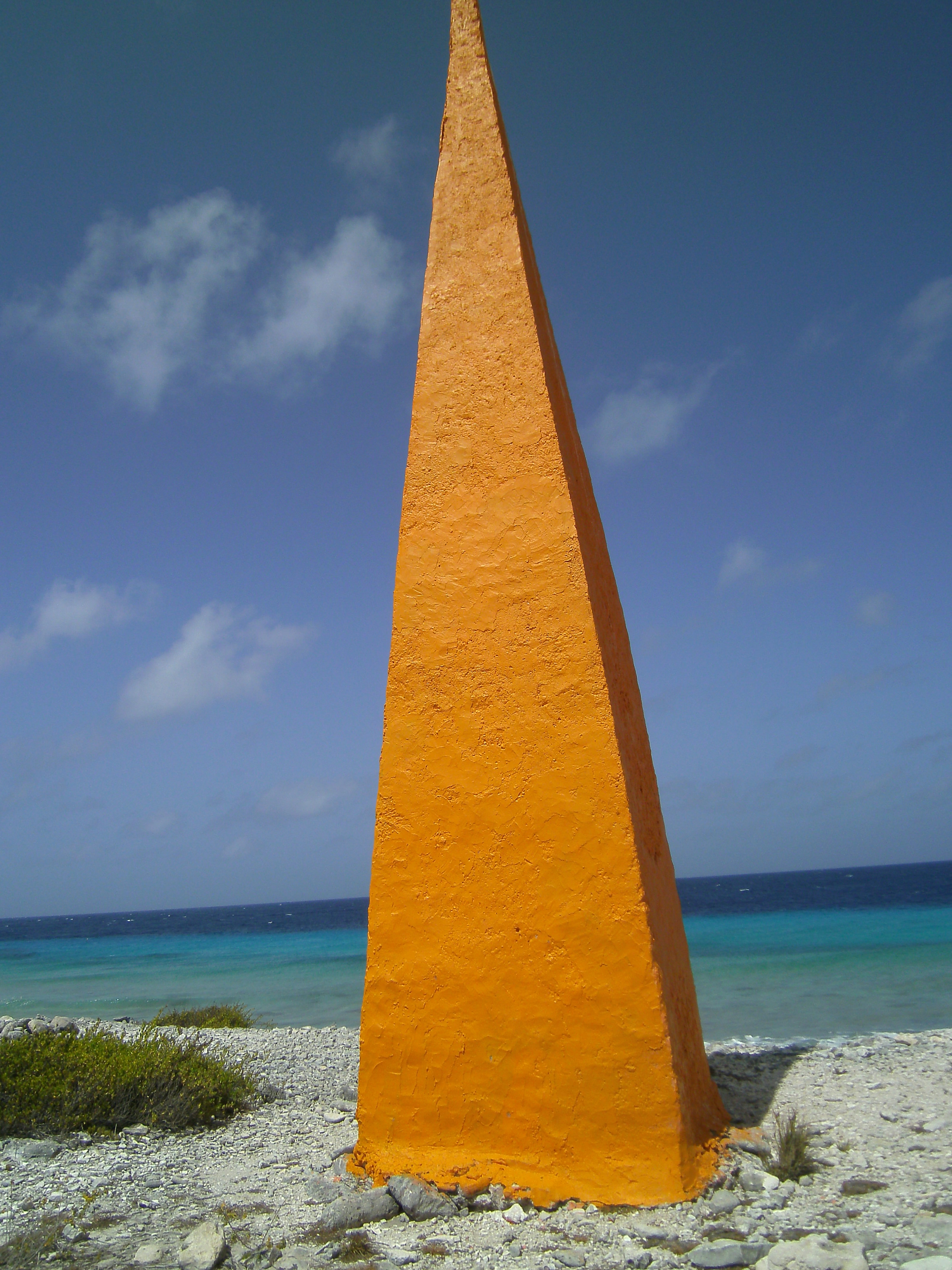 They used to have to ferry the salt from the shore to boats out past these reefs. They built 4 obelisks of different colors so you could see from off shore where to stop for salt depending on what grade you wanted. SeaLife DC1400 Bonaire